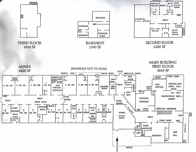 The floor plan for the Clovis Sanitarium/Nursing Home complex that includes the mansion and the attached hospital wing